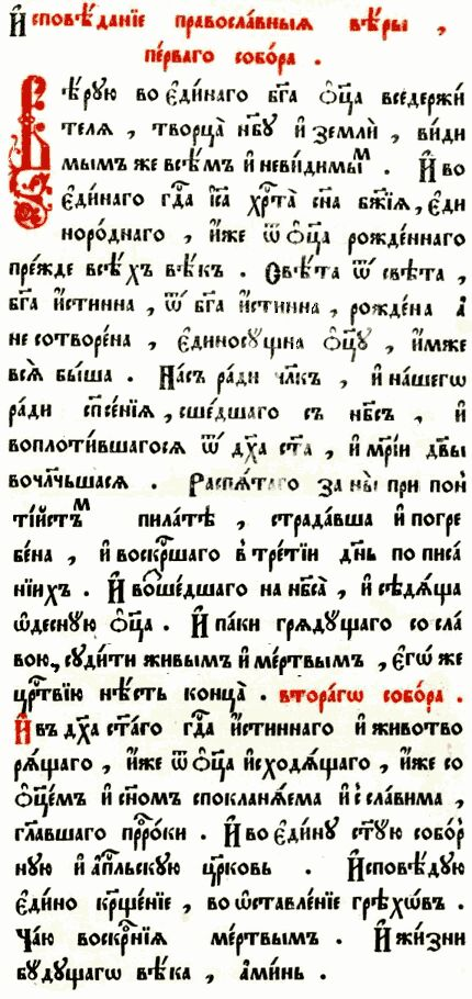 The Creed of Old Believers (Russian Orthodox Creed as it existed before the Nikonina schism.